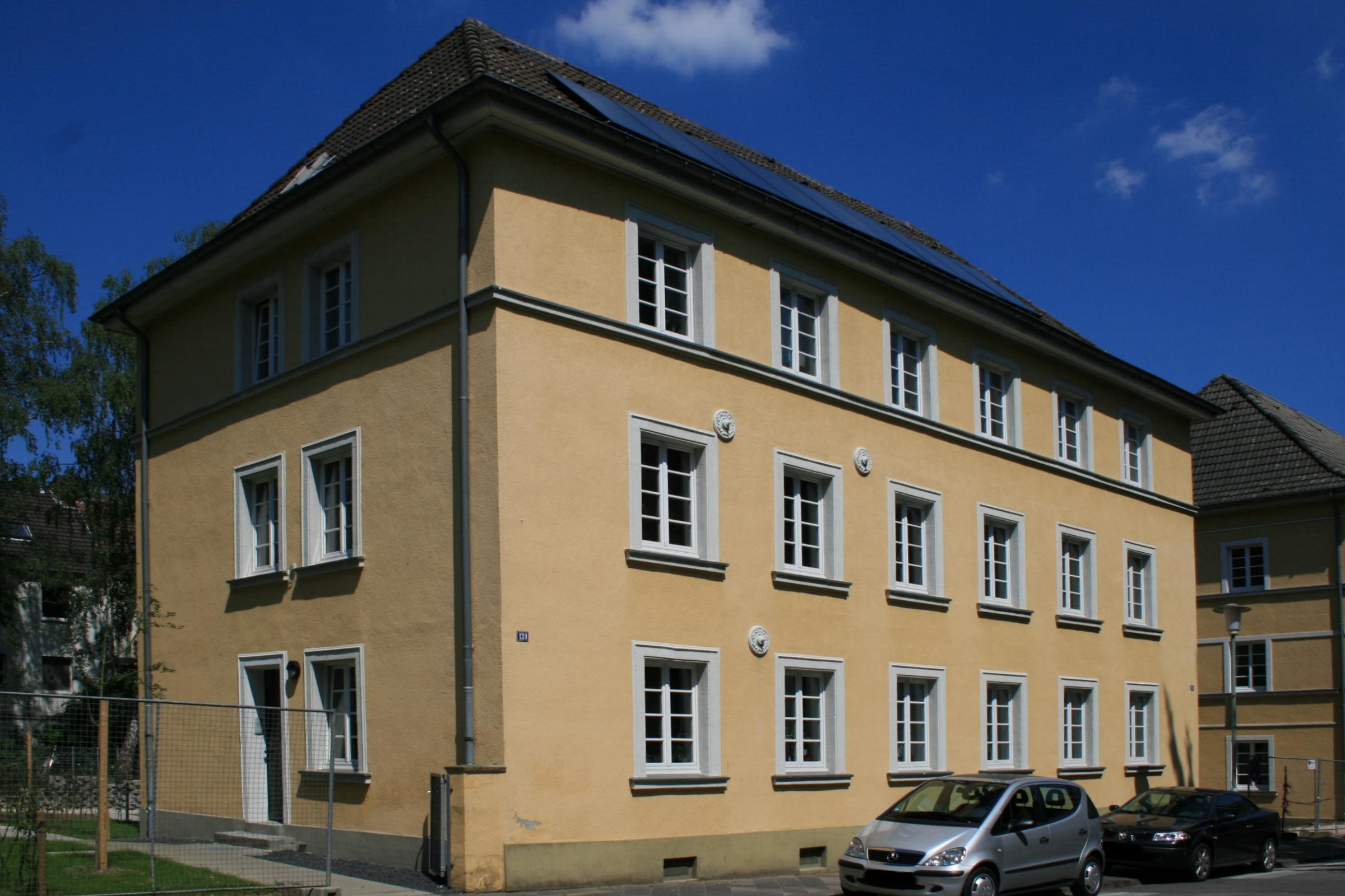 Cultural heritage monument No. R 063 in Mönchengladbach